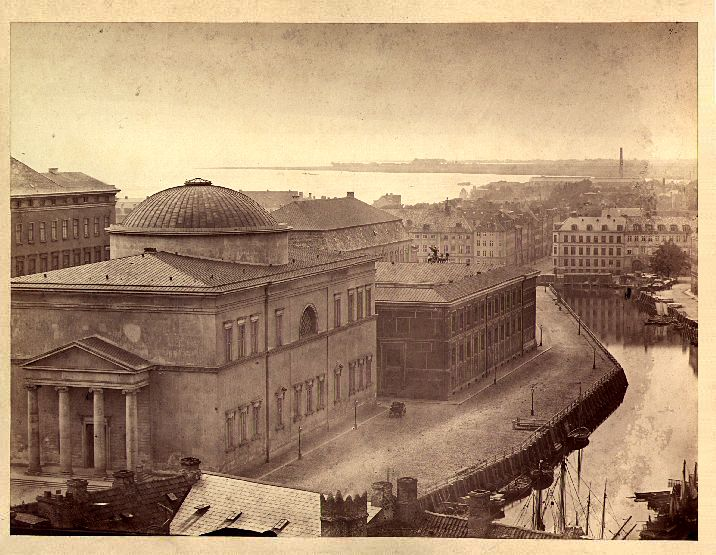 Christiansborg Palace Church. Albumin, 235 x 312 mm.